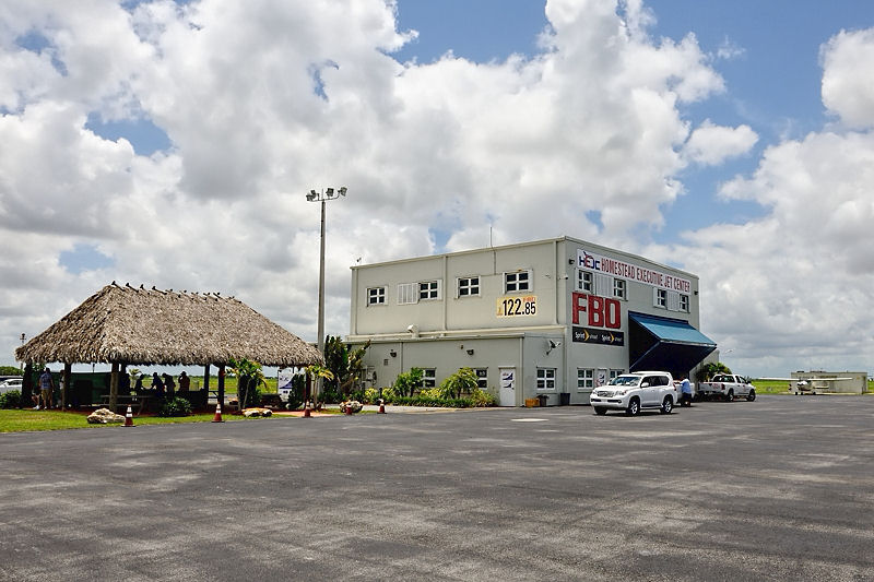 Homestead General Aviation Airport in South Florida